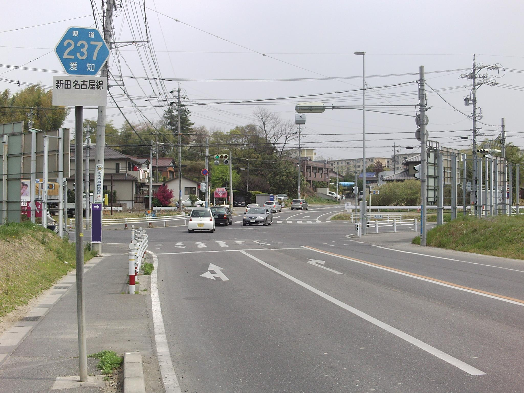 Aichi prefectural road No.237 in Magomecho, Toyoake, Aichi.